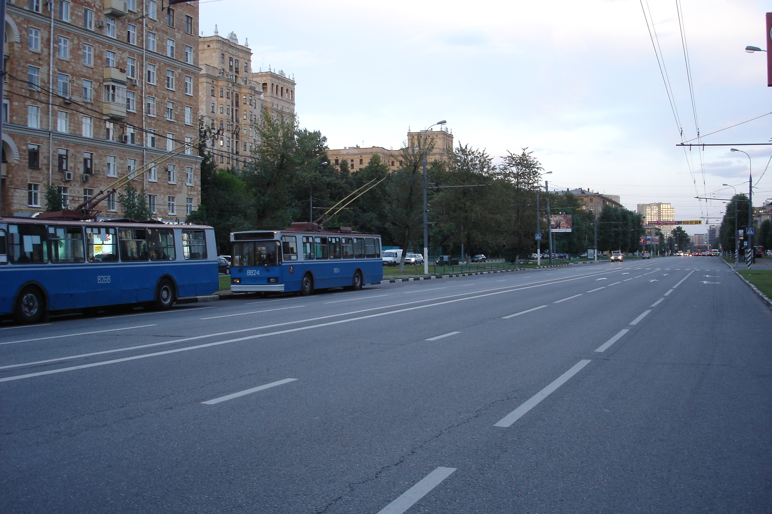 Lomonosovsky prospect, Moscow, Russia. View at the segment near Javakharlal Neru square.